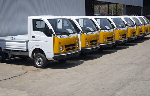 Tata Ace @ factory outlet